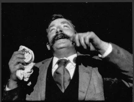 Fred Ott in mid-sneeze. Still from 1894 motion picture Kinetoscopic Record of a Sneeze, the earliest copyrighted film. Presumably the copyright has now expired.